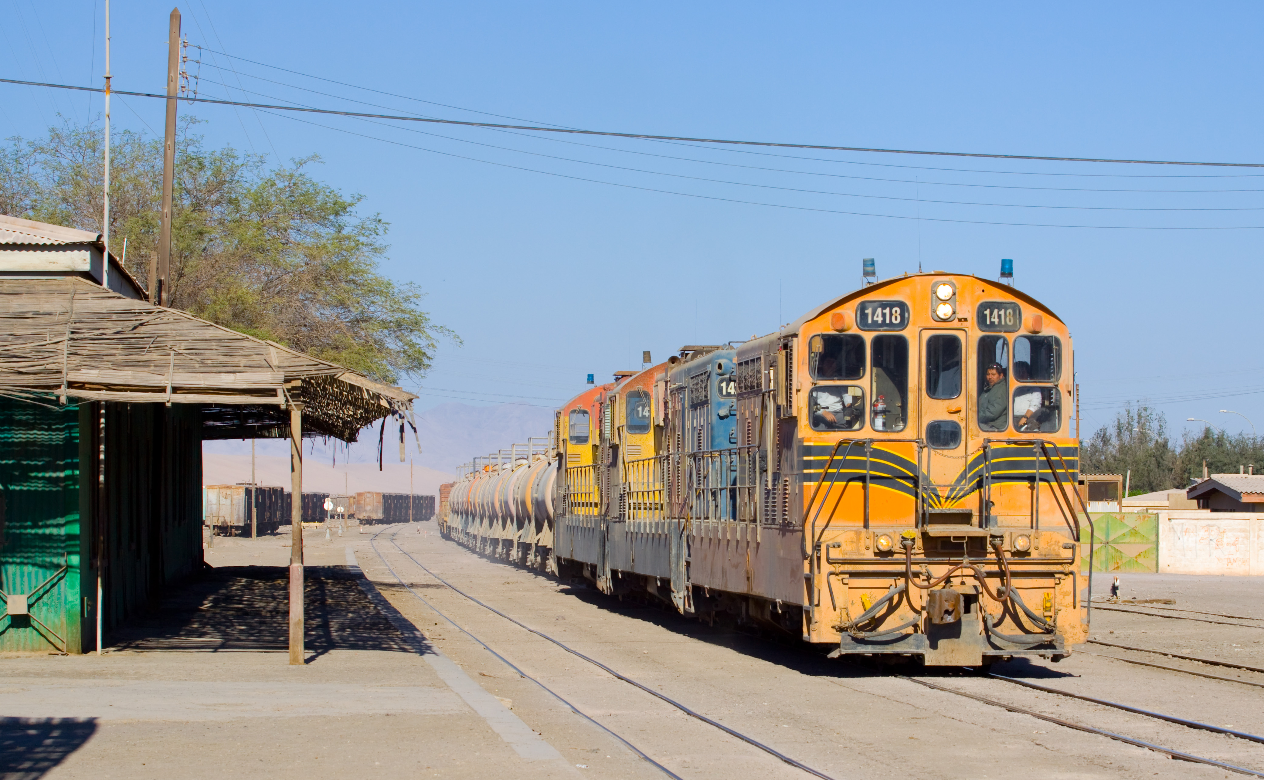 Three FCAB GR12UM (1418, 1424, 1430) are passing through Baquedano station, Chile. The lead unit still bears the old FCAB livery.